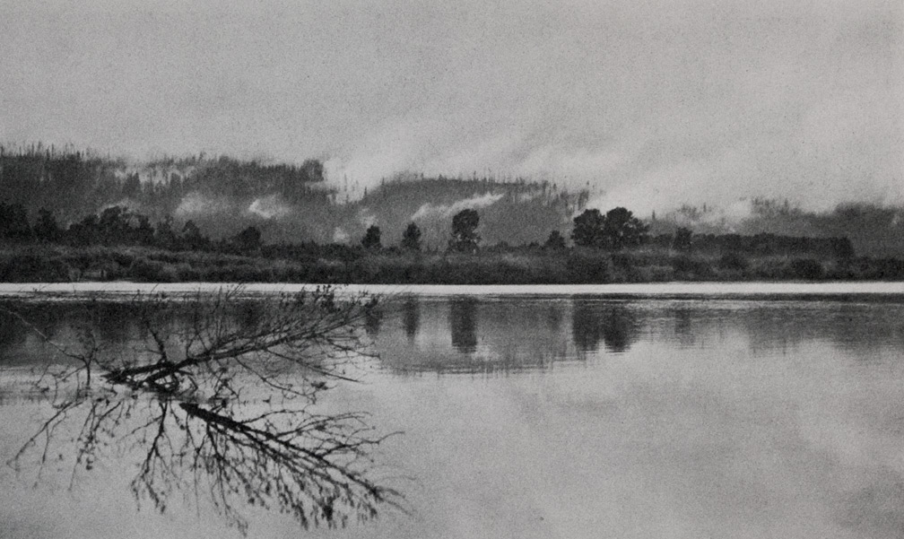 "Early Morning above Vancover", by Sarah H. Ladd